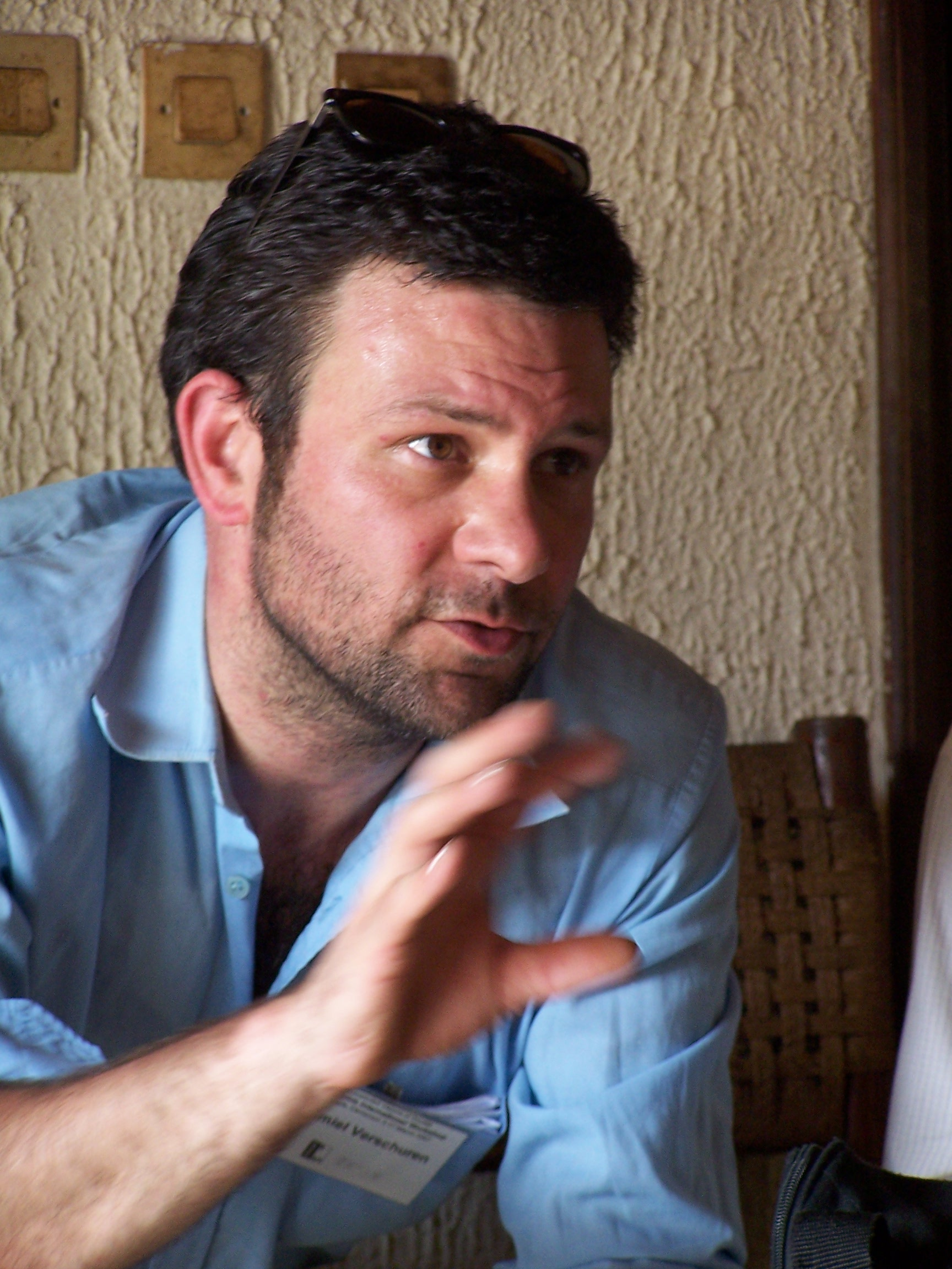 Ars&Urbis International Workshop 2007, Douala, March 2007. Photo by Paulin Tchuenbou for doual'art.